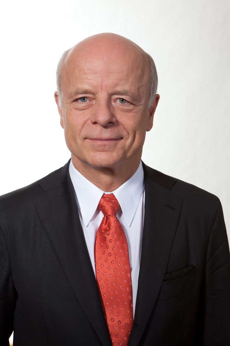 Dr.-Ing. Gerd Felix Eckelmann from Wiesbaden, Germany